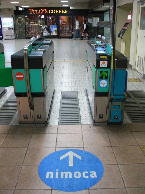 Ticket gate compatible with nimoca, one of the smart cards introduced in Fukuoka area, at Nishitetsu-Kurume Station